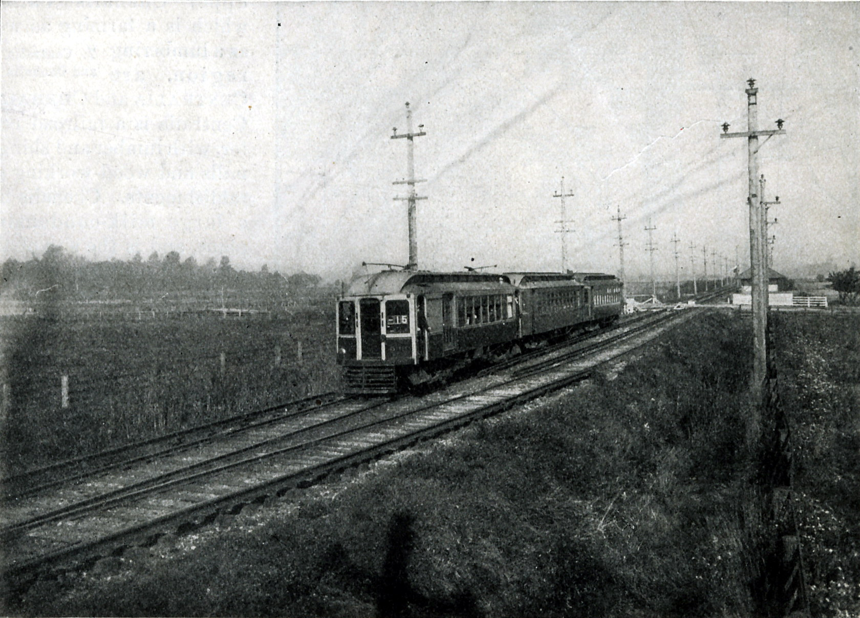 A view of an interurban train of the Puget Sound Electric Railway between Seattle and Tacoma in the 1910s. This image is taken from the 1914 textbook, New Geographies by Tarr & McMurphy, published by MacMillan